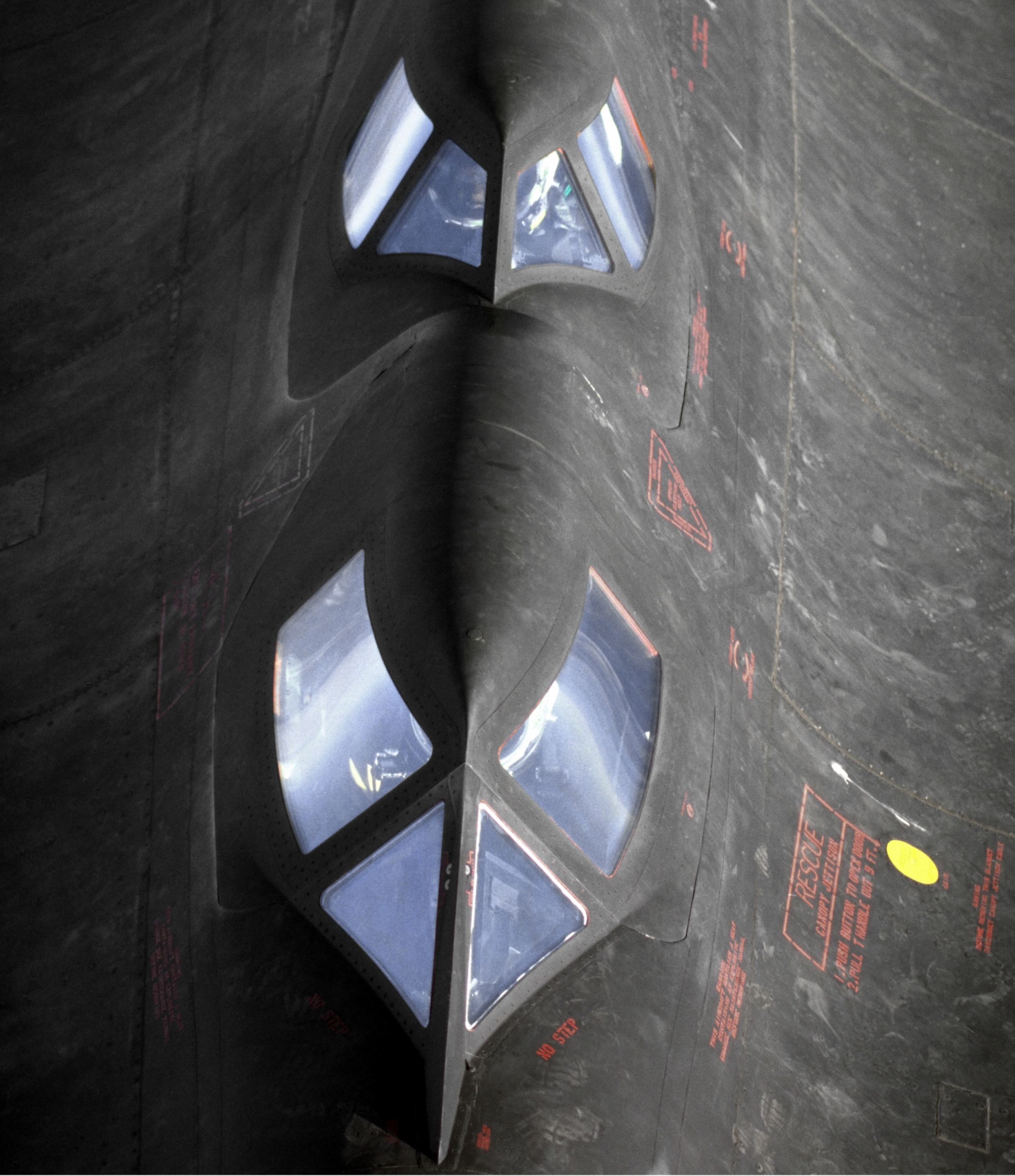 The NASA Lockheed SR-71B (USAF s/n 61-7956) seen from an USAF Boeing KC-135 Stratotanker in 1994. Original description: "This extreme close-up of the SR-71B operated by NASA’s Dryden Flight Research Center, Edwards, California, gives an unusual view of the twin cockpit of Dryden's SR-71B, NASA 831, and its helmeted crew members. The photo was taken from an Air Force tanker refueling the Blackbird during a 1994 flight."